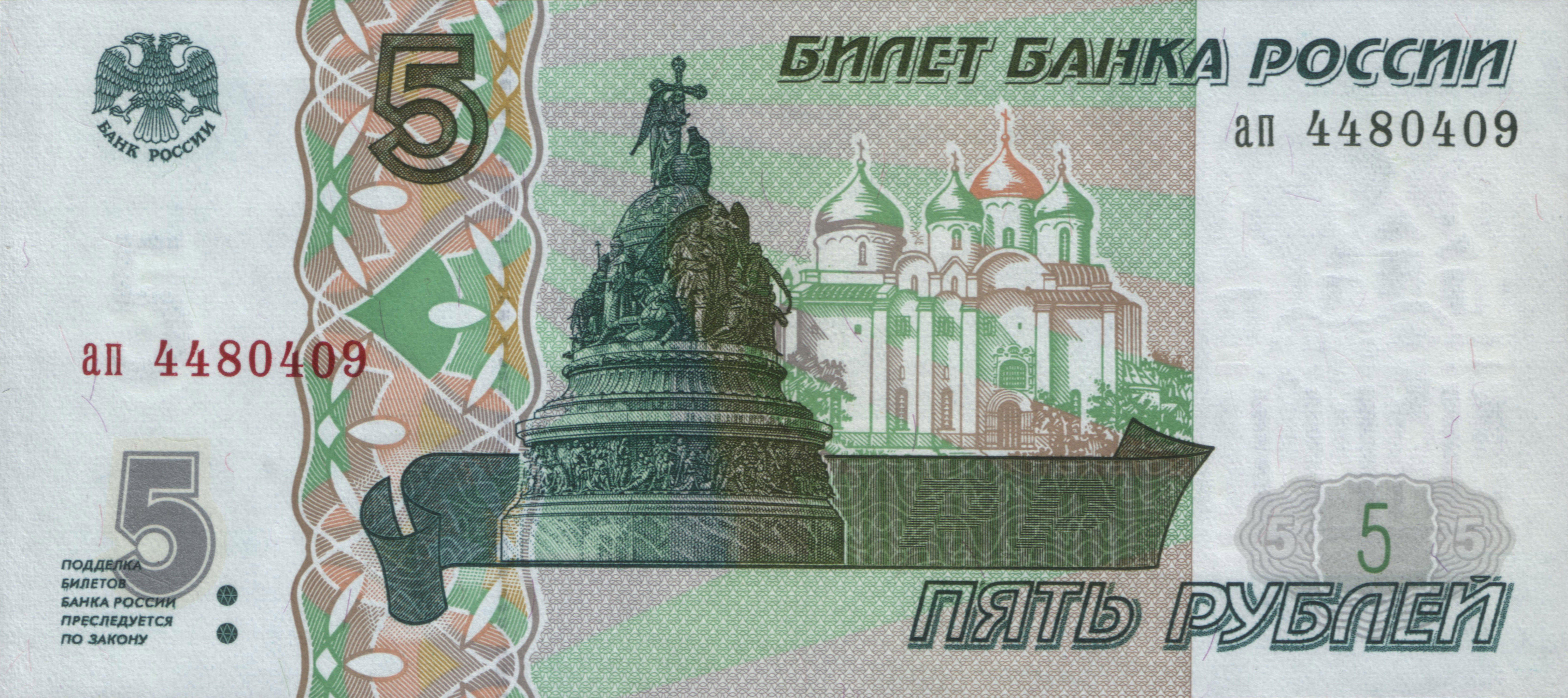 Russian banknote. 5 rubles. Version of 1997 year. Front